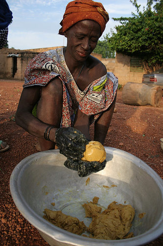 Proccessed by the women of this village in Northern Ghana, the desert date (Balanites aegyptiaca) makes an effective soap.